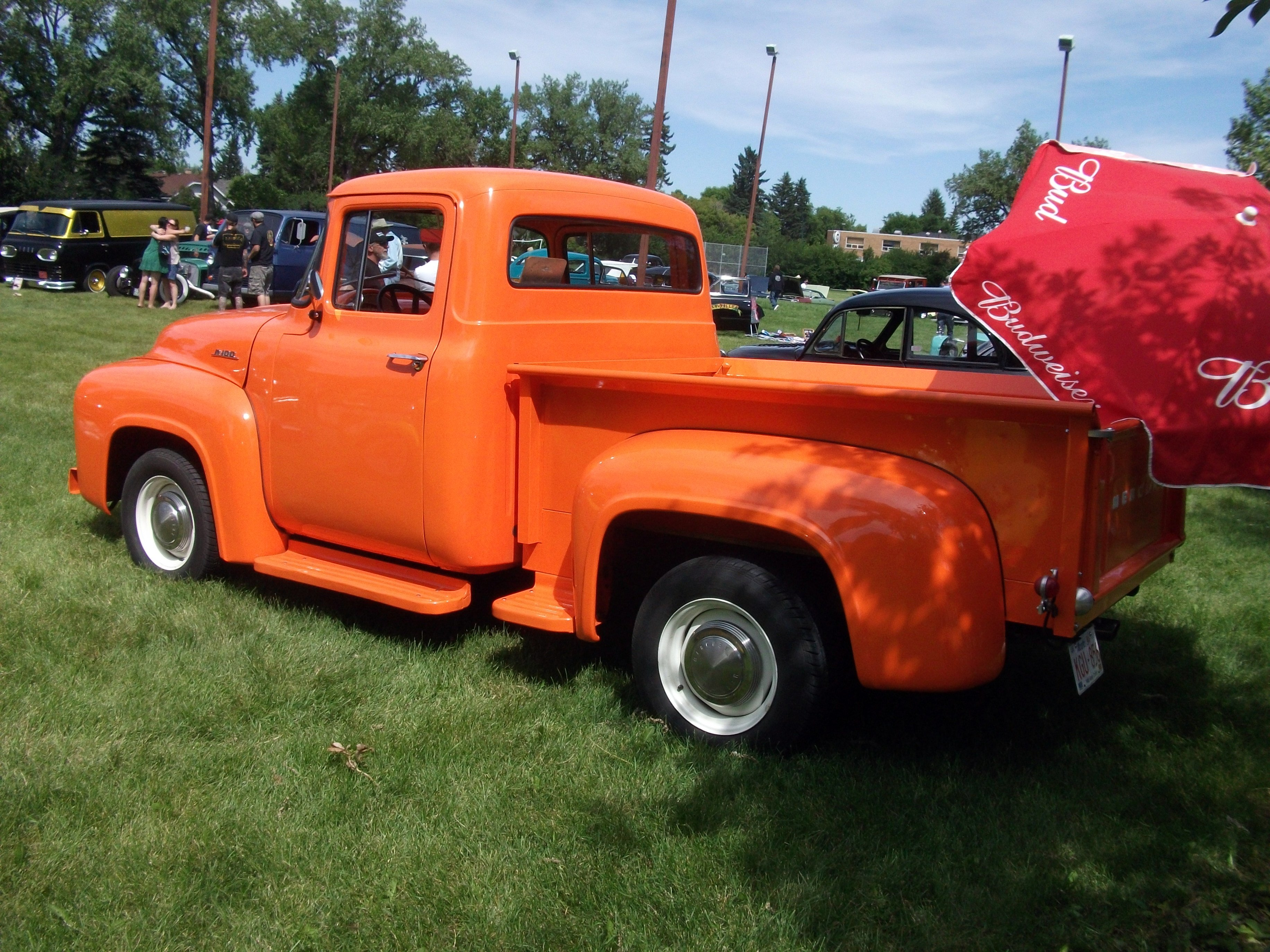 Canadian Mercury M-100 truck